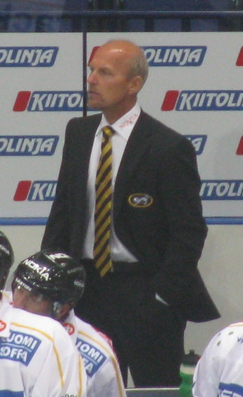 Matti Alatalo of Kärpät